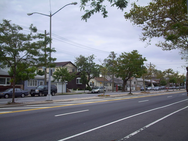 Cross Bay Boulevard in Broad Channel, Queens NY. This shot appears to have been taken from Cross Bay Blvd, facing SE towards the intersection of Cross Bay Blvd and 12th Rd. Category:Images of Queens Summary Cross Bay Boulevard in Broad Channel, Queens NY. This shot appears to have been taken from Cross Bay Blvd, facing SE towards the intersection of Cross Bay Blvd and 12th Rd.